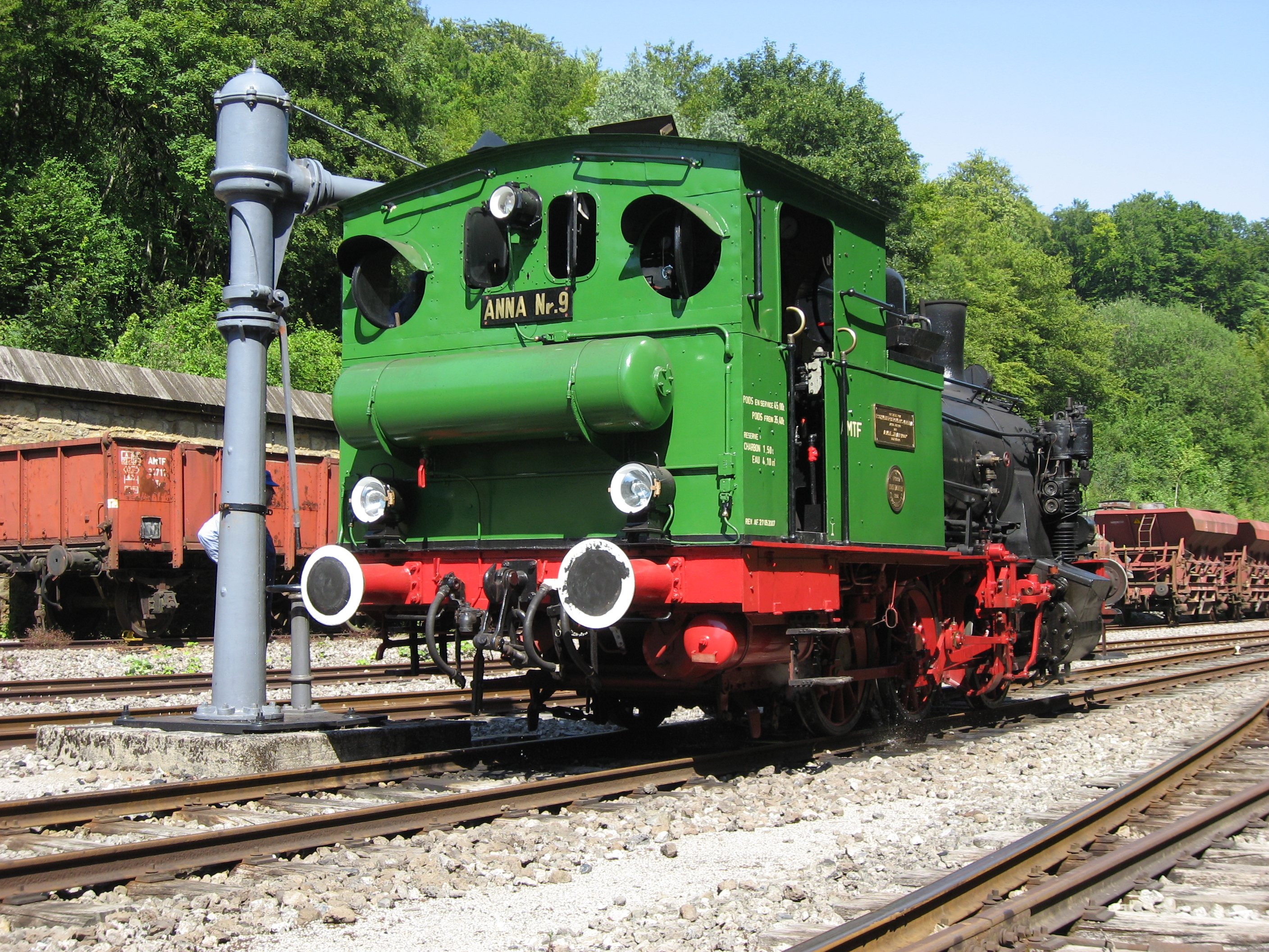 Train 1900 - Steam loco "Anna Nr. 9" at Fond de Gras station.